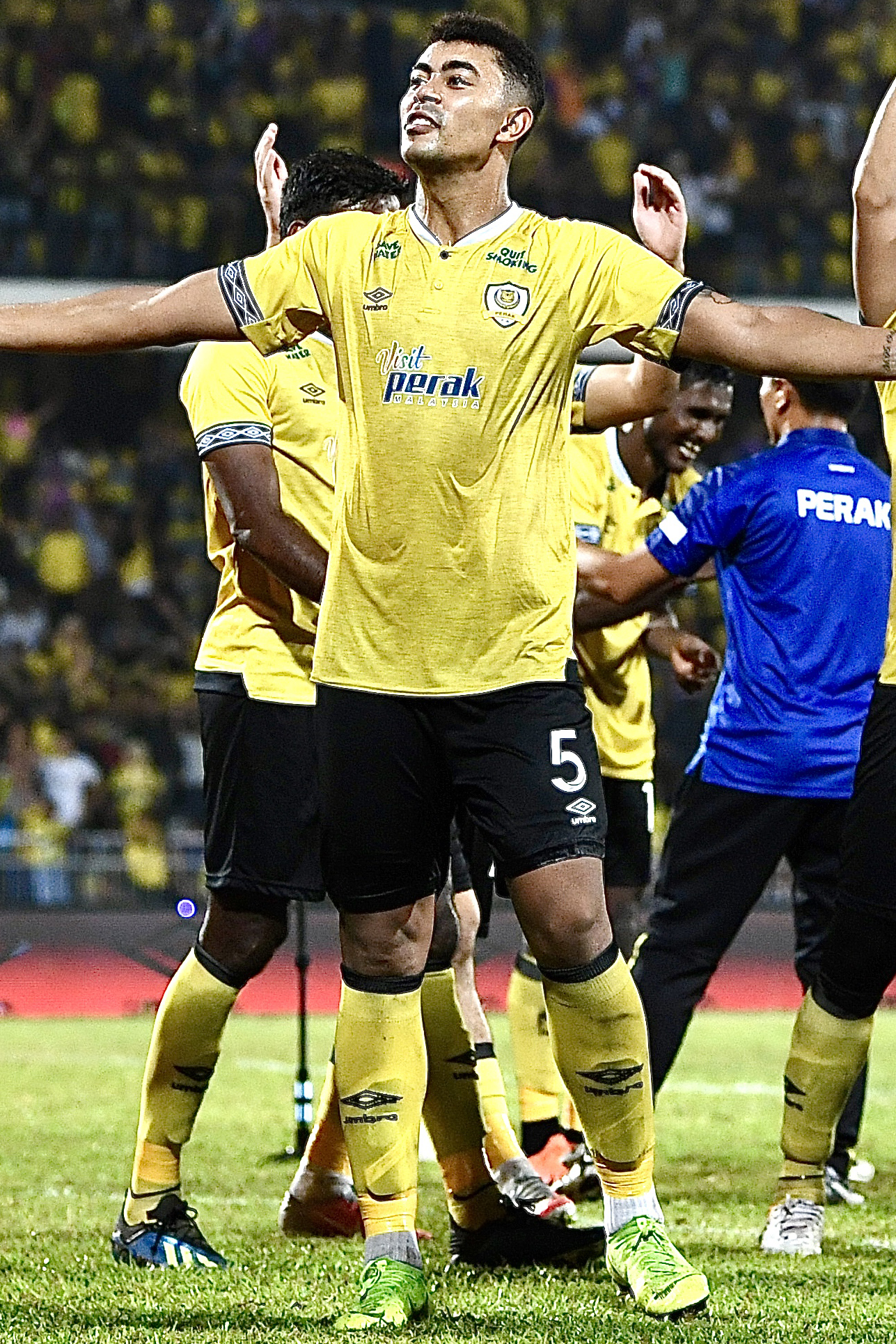 Hussein Eldor celebrating with Perak FA.